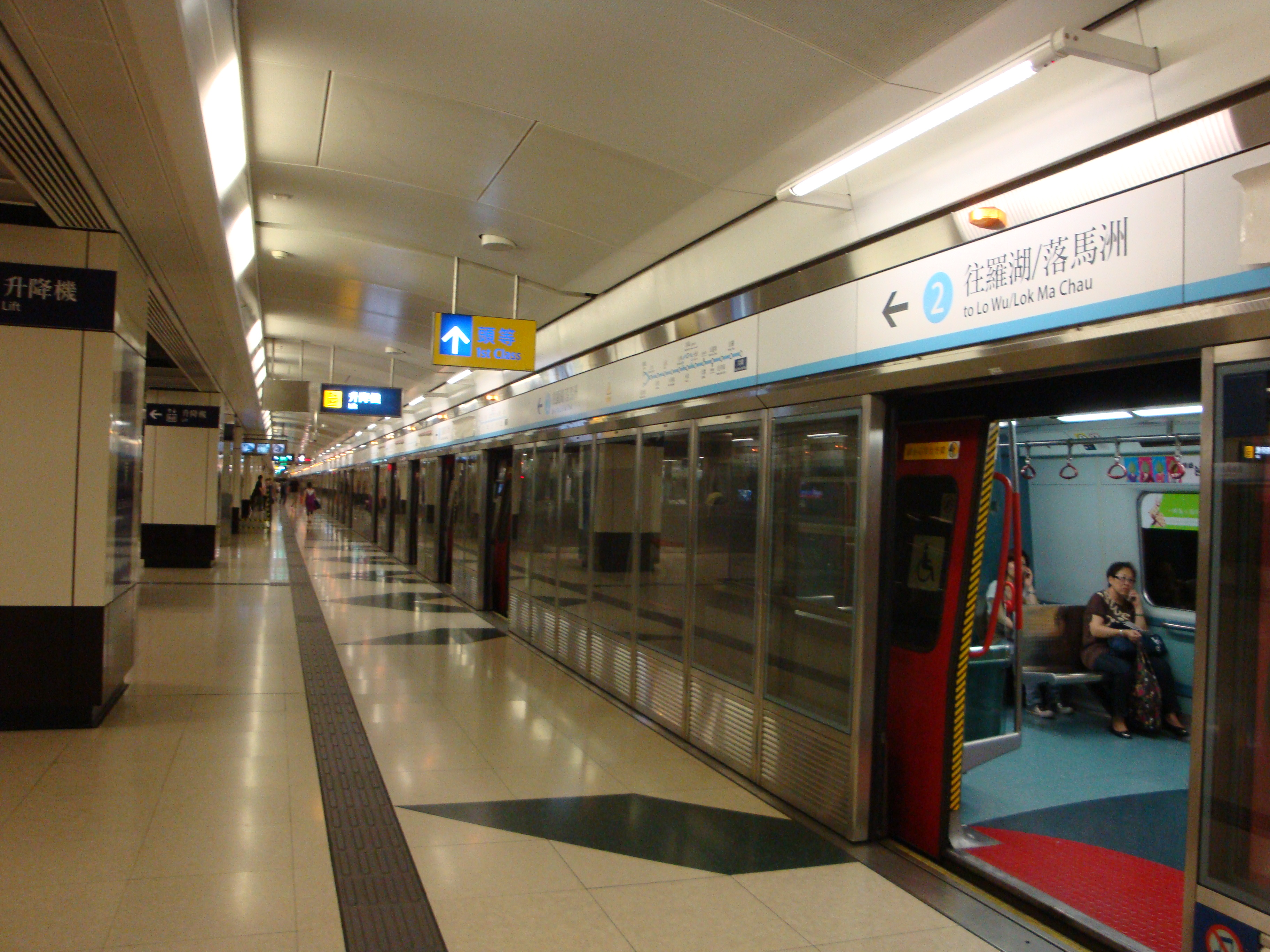 MTR ETS Platform 2 2009-8-15